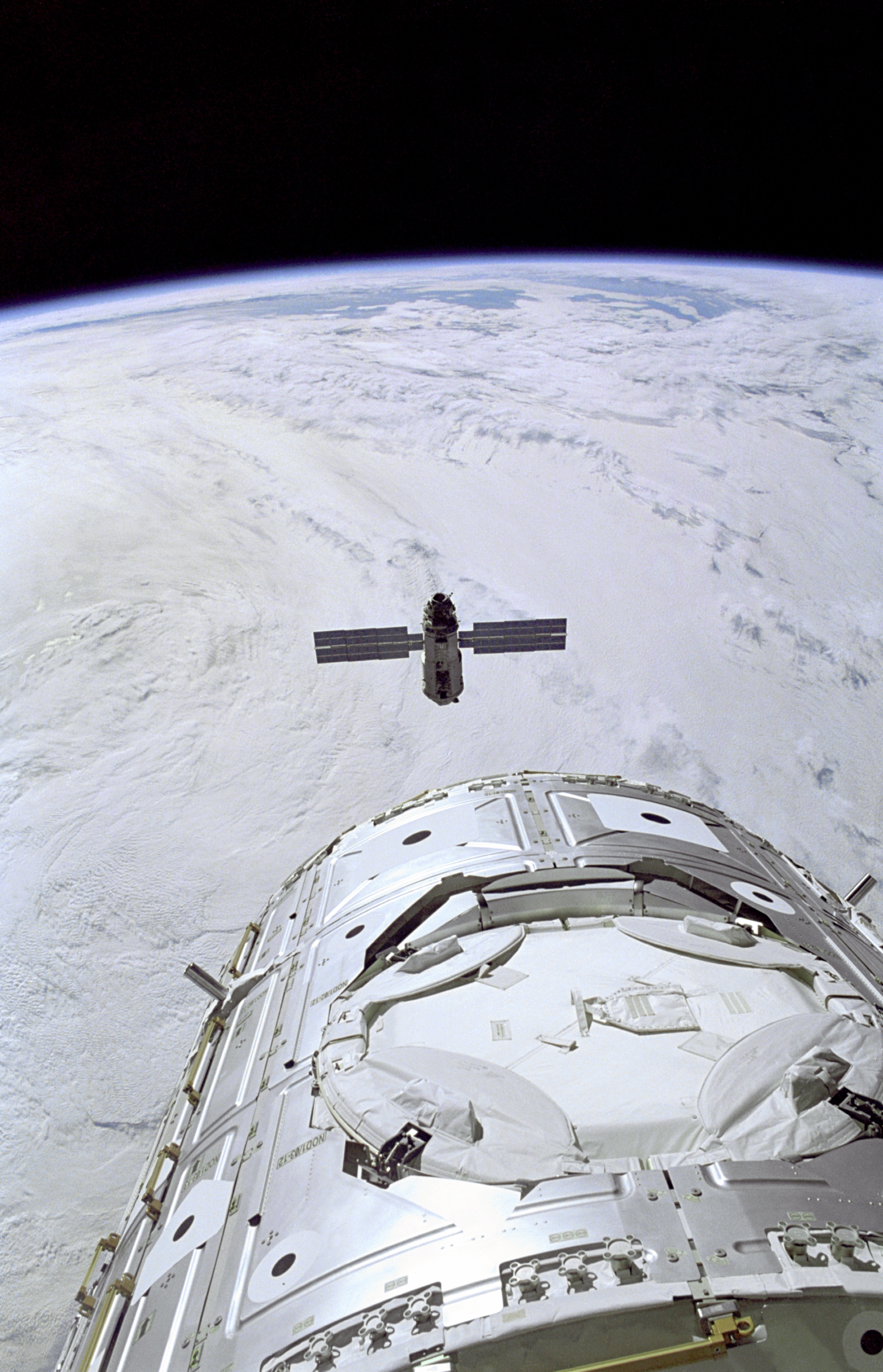 Backdropped against a blanket of heavy cloud cover, the Russian-built FGB, also called Zarya, nears the Space Shuttle Endeavour and the U.S.-built Node 1, also called Unity (foreground). Inside Endeavour's cabin, the STS-88 crew readies the Remote Manipulator System (RMS) for Zarya capture as they await the carefully choreographed dance of the rendezvous.